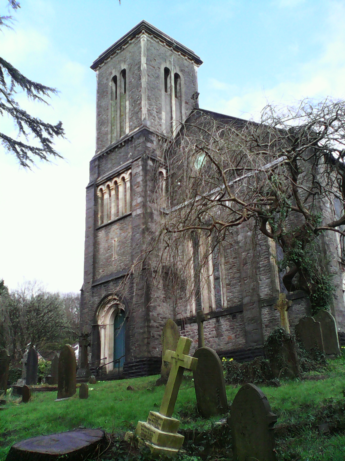 St Mary's, Glyntaff and churchyard.